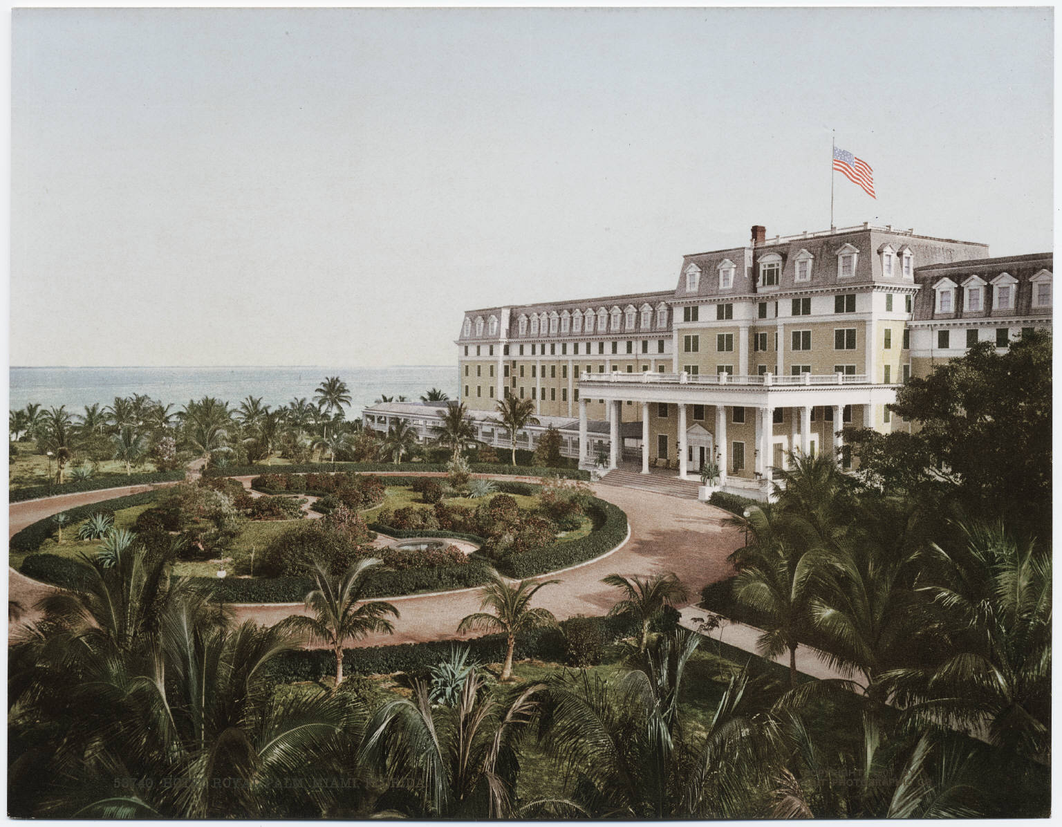 A photochrom postcard published by the Detroit Photographic Company.